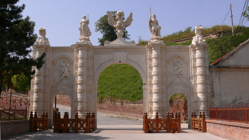 Alba Iulia, the Lower Charles Gate